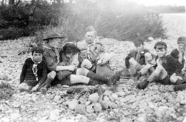 Darlington boy scouts and cubs in the 1920s at Low Coniscliffe, County Durham, England. From old glass negative, photo taken ca.1920.